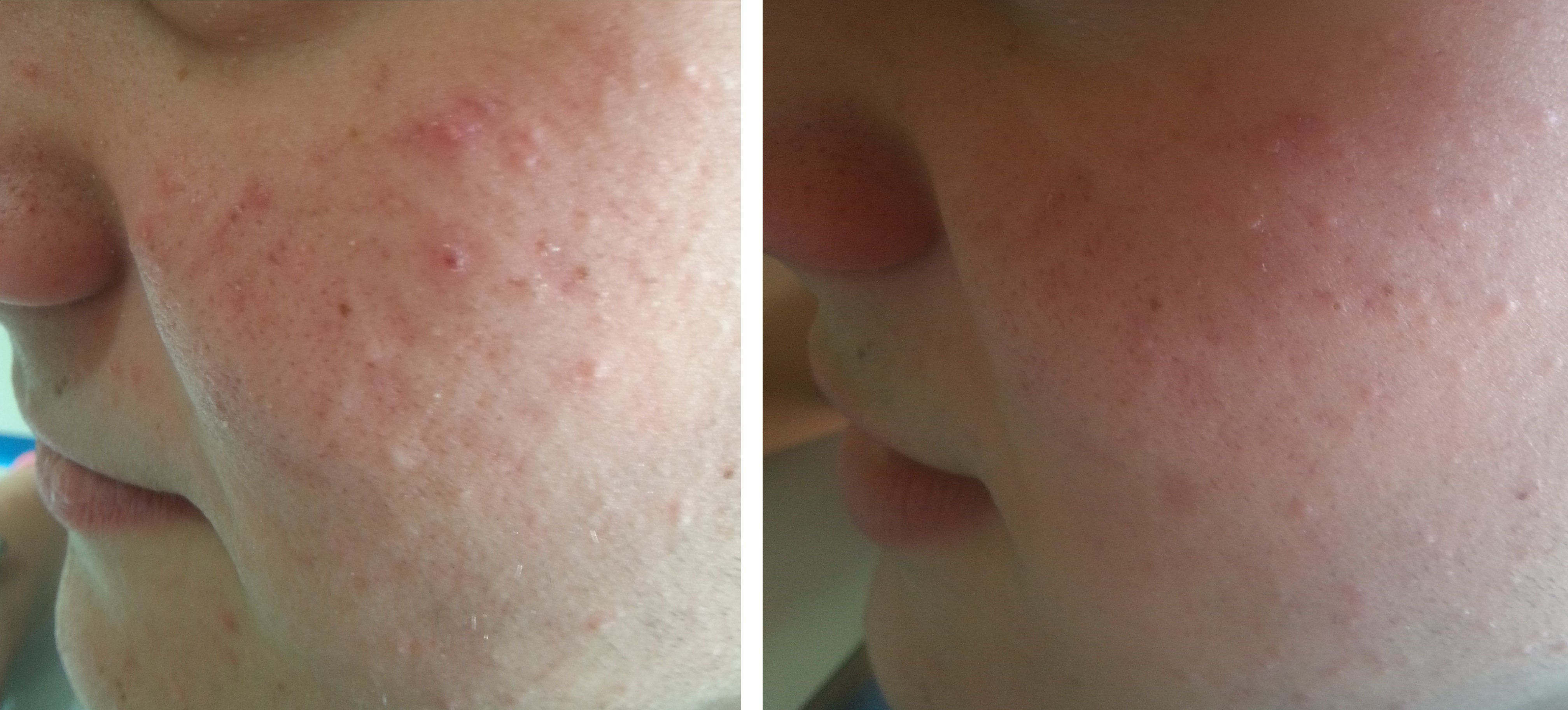 A la izquierda una piel con acné. A la derecha, la misma piel después de 8 días utilizando jabón de Alepo al 50% en aceite de laurel